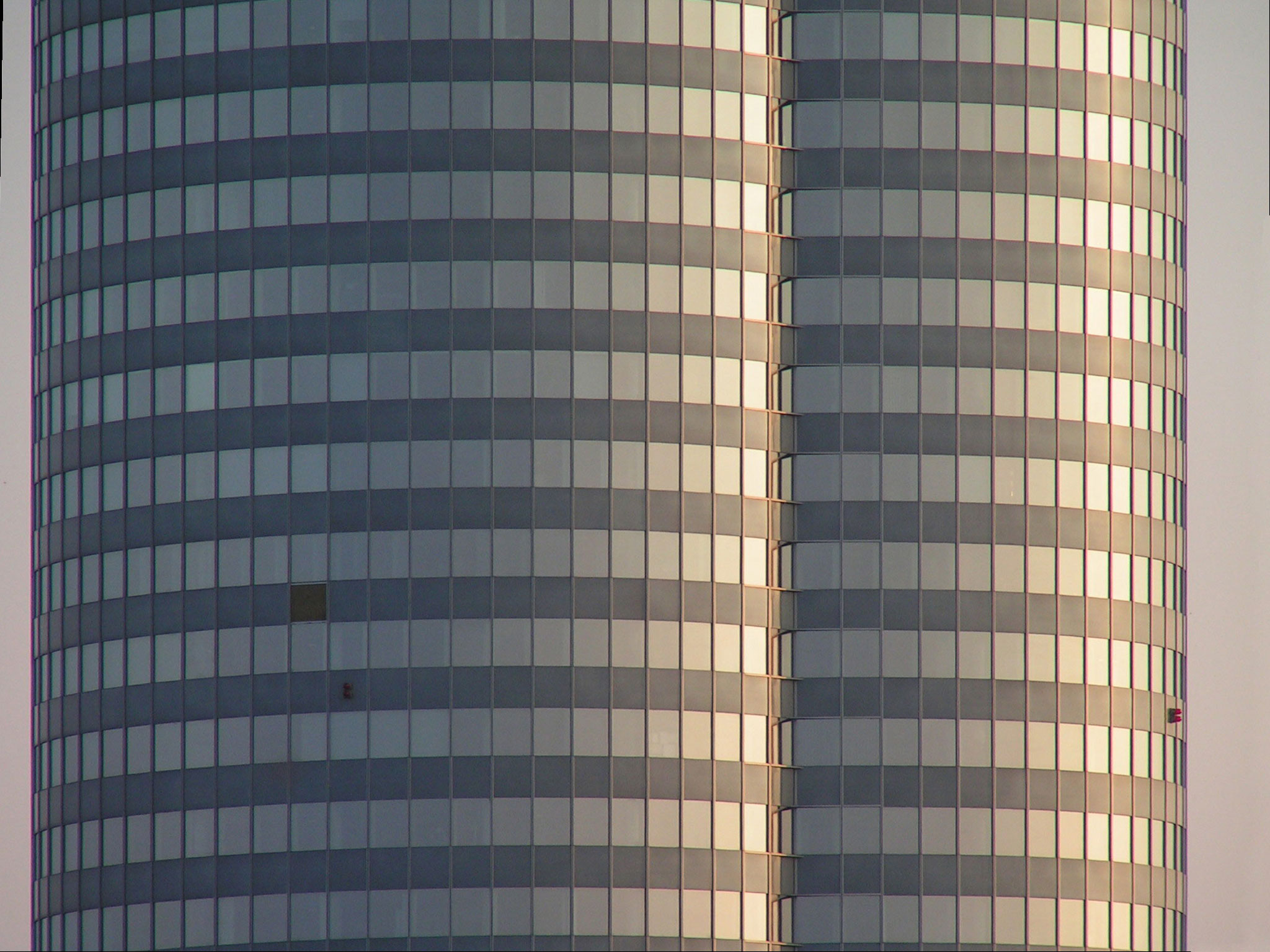 Detail of the Millenium Tower in Vienna